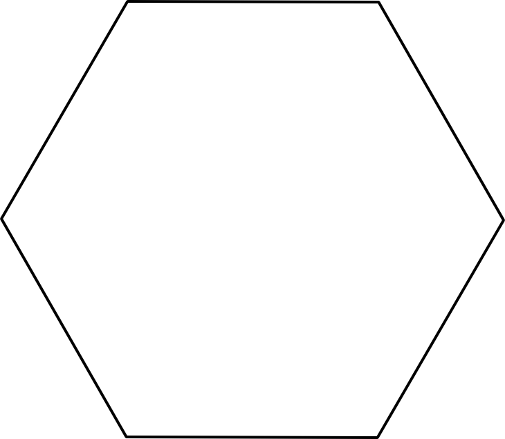 It is unclear, is this hexagon regular or not. See below the SVG image of regular hexagon.